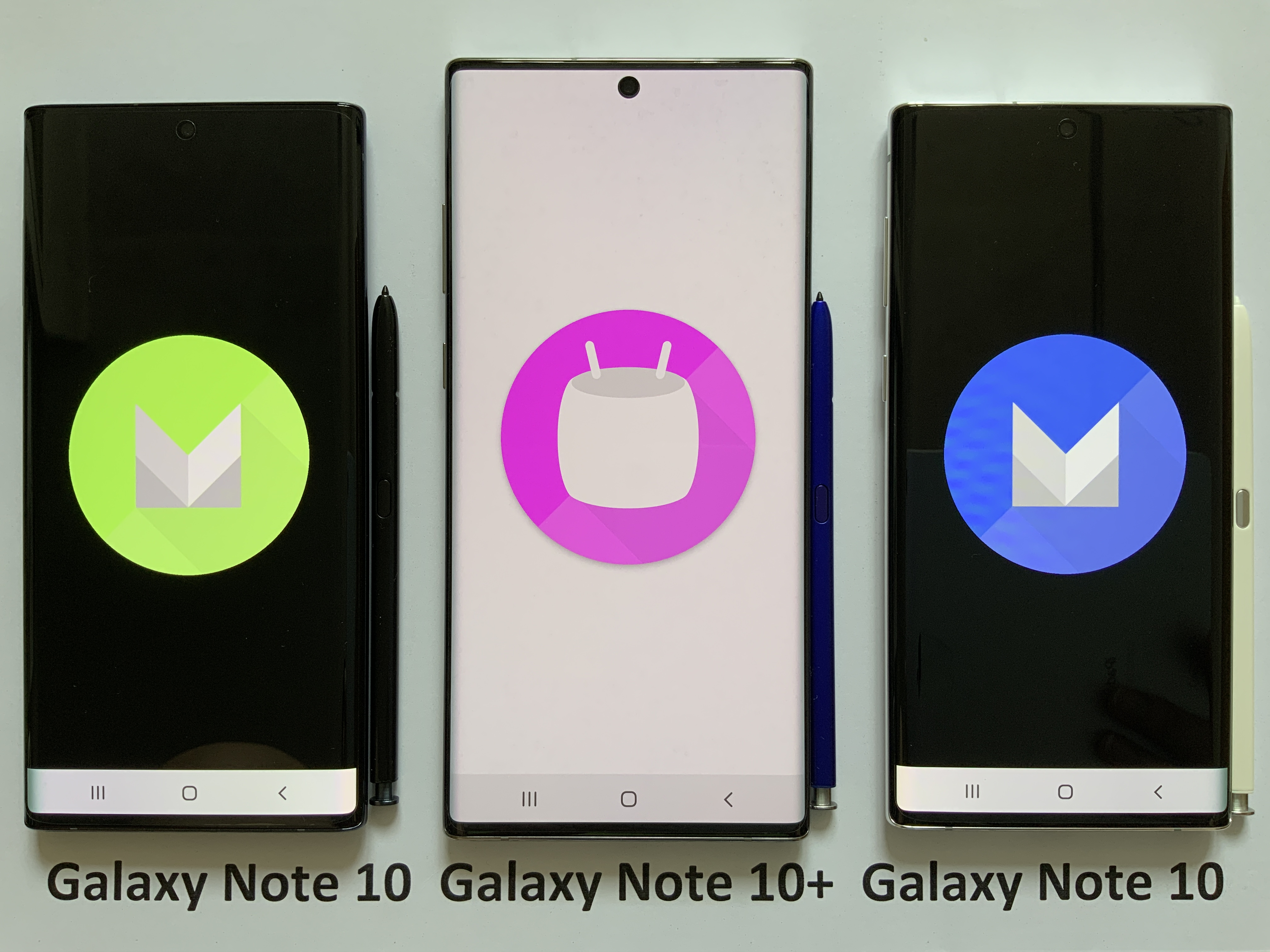 Android Marshmallow Easter eggs shown on Samsung Galaxy Note 10